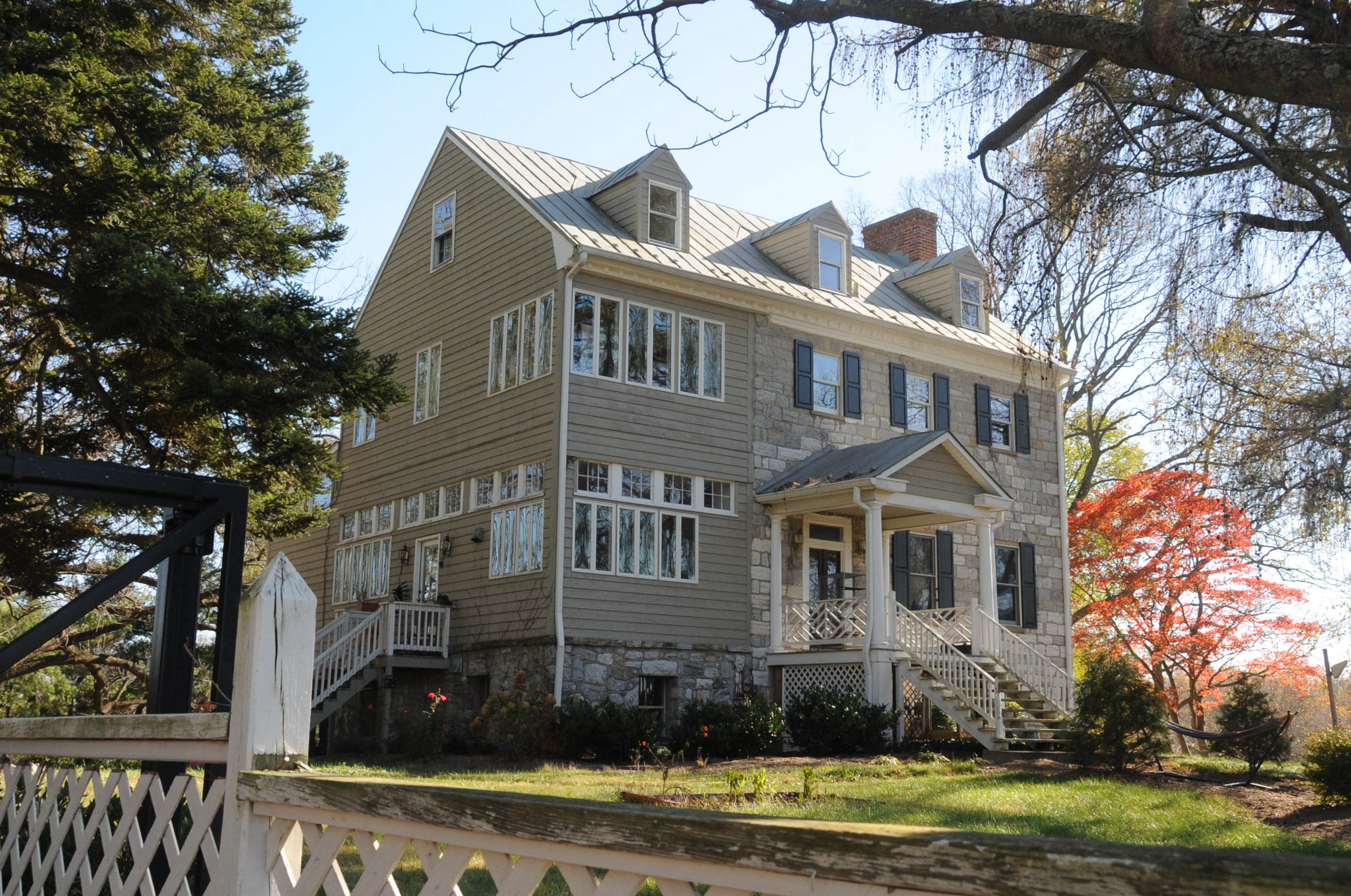 A VAST RURAL AREA OF 16 SQUARE MILES DEVELOPED BEGINNING IN THE 1730s. THIS PICTURE IS OF VILLA LARUE BUILT BY JABEZ LARUE IN THE 1790s WITH A NEWER ADDITION OF THE LEFT